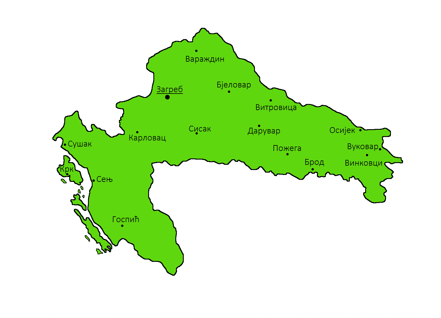 мапа са најважнијим местима, укључујући главни град Загреб.